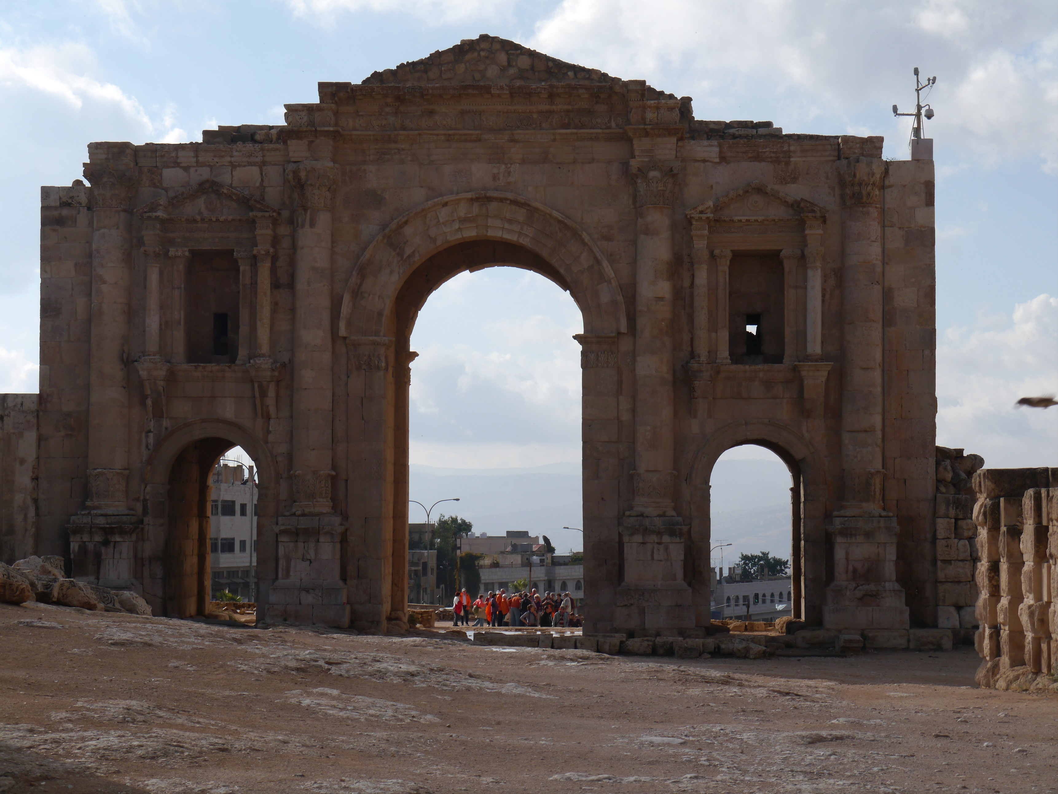 Arch of Hadrian, Gerasa/Jerash, Northwestern Jordan